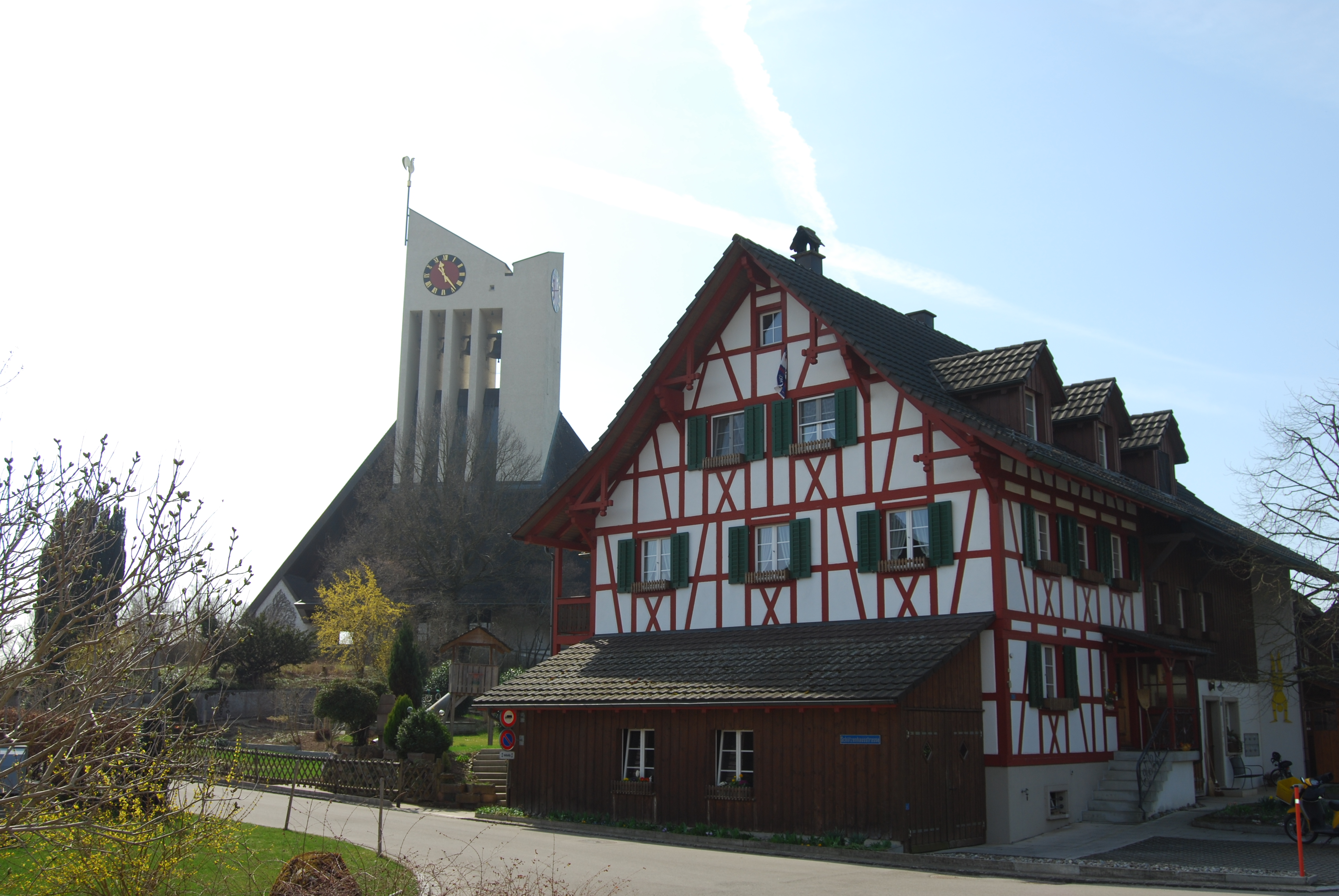 Church of Wil ZH, canton of Zürich, Switzerland